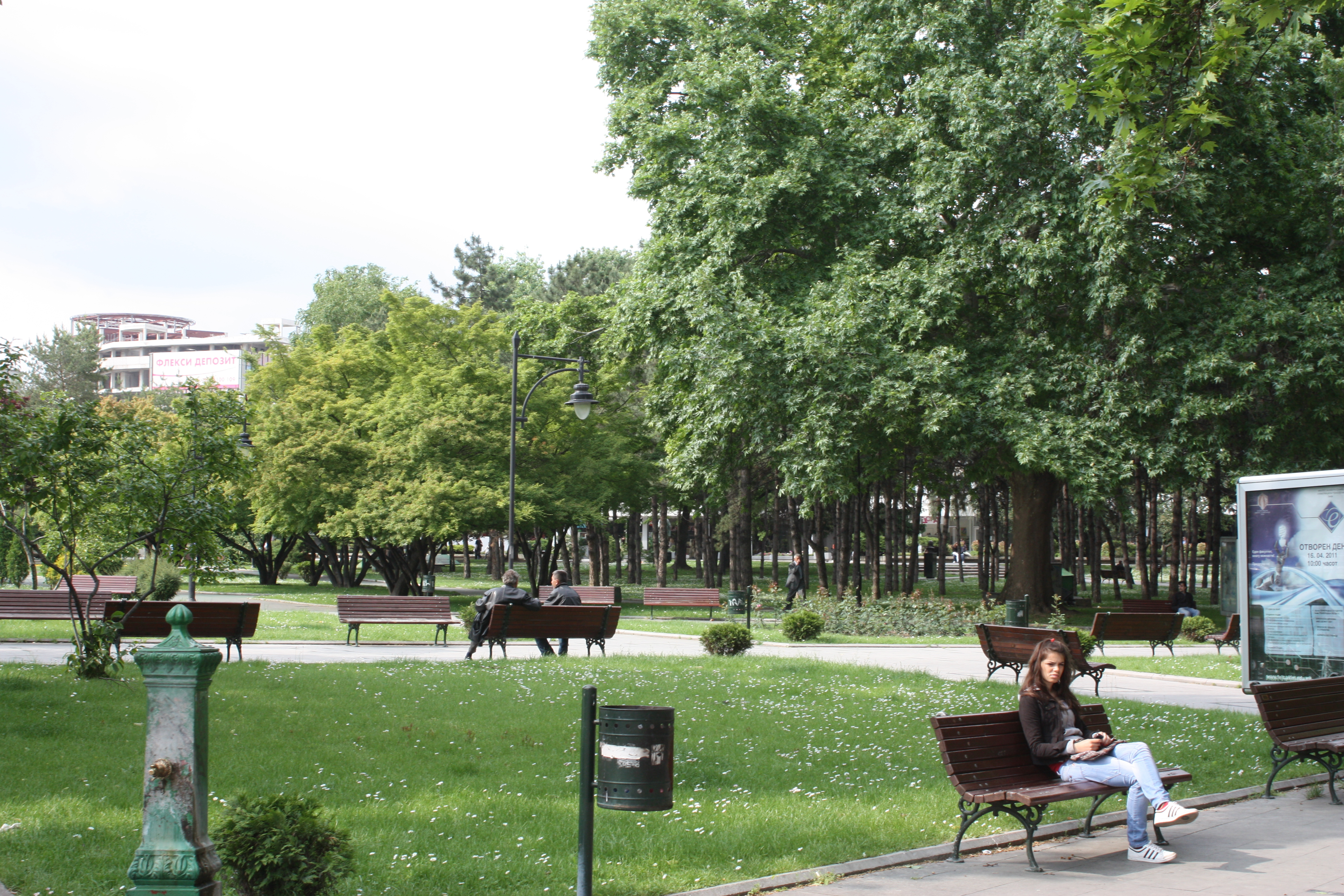 Skopje City Park, Macedonia